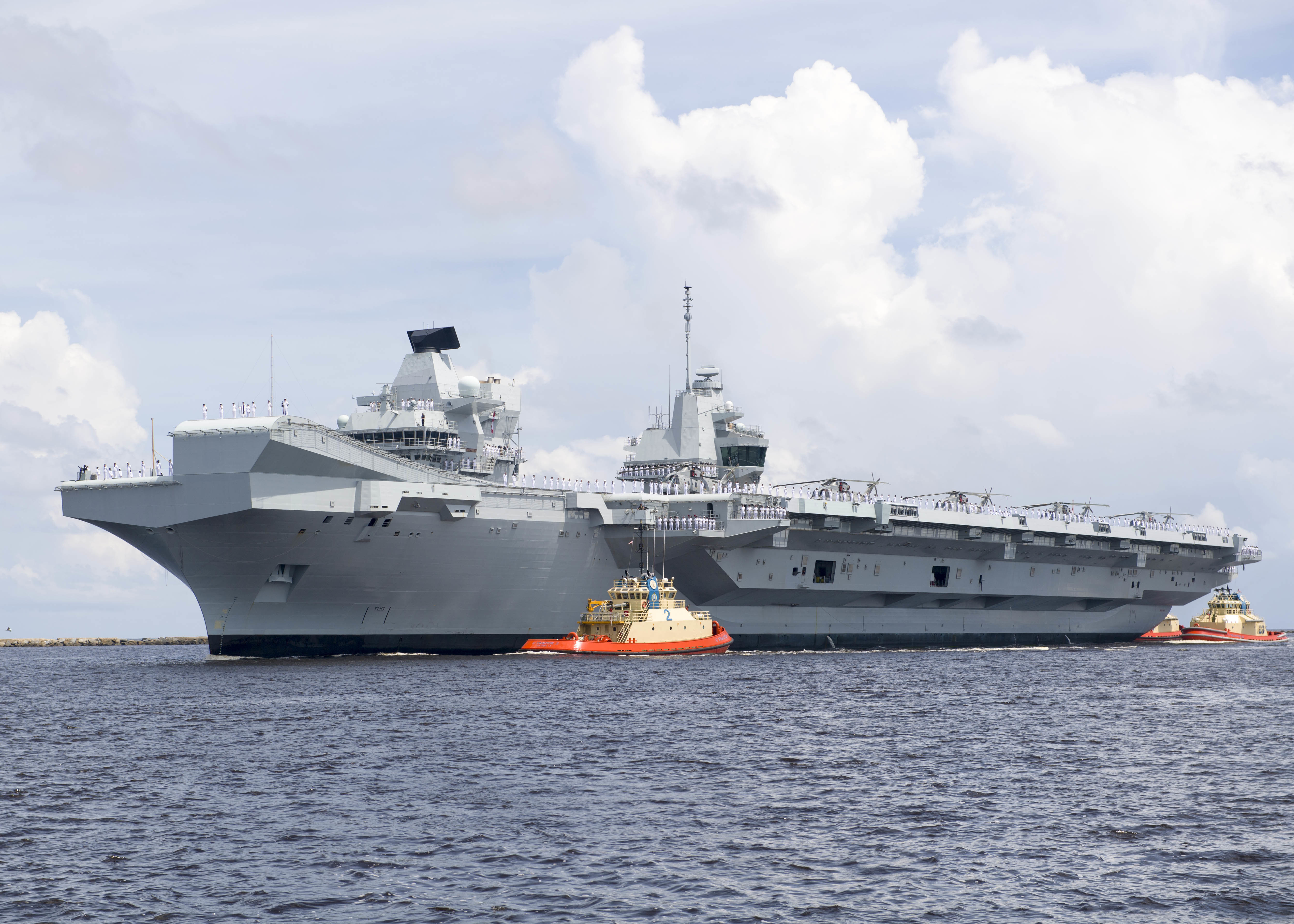 180905-N-NY430-1017 JACKSONVILLE, Fla. (Sept. 5, 2018) The Royal Navy aircraft carrier HMS Queen Elizabeth (R08) arrives at Naval Station Mayport for a port visit, Sept. 5, 2018.